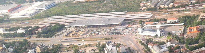 Aerial view of the Main Train Station and the Central Bus Station in Sofia, Bulgaria